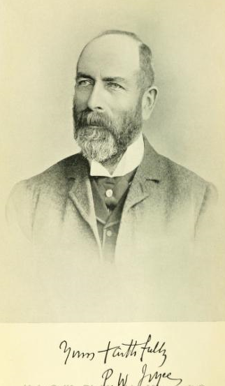 Picture of the author from the frontispiece of book. Snipped and reproduced.